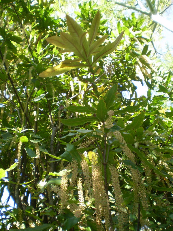 Macadamia tetraphylla, 'Bush Nut', branch with new shoot and flower.